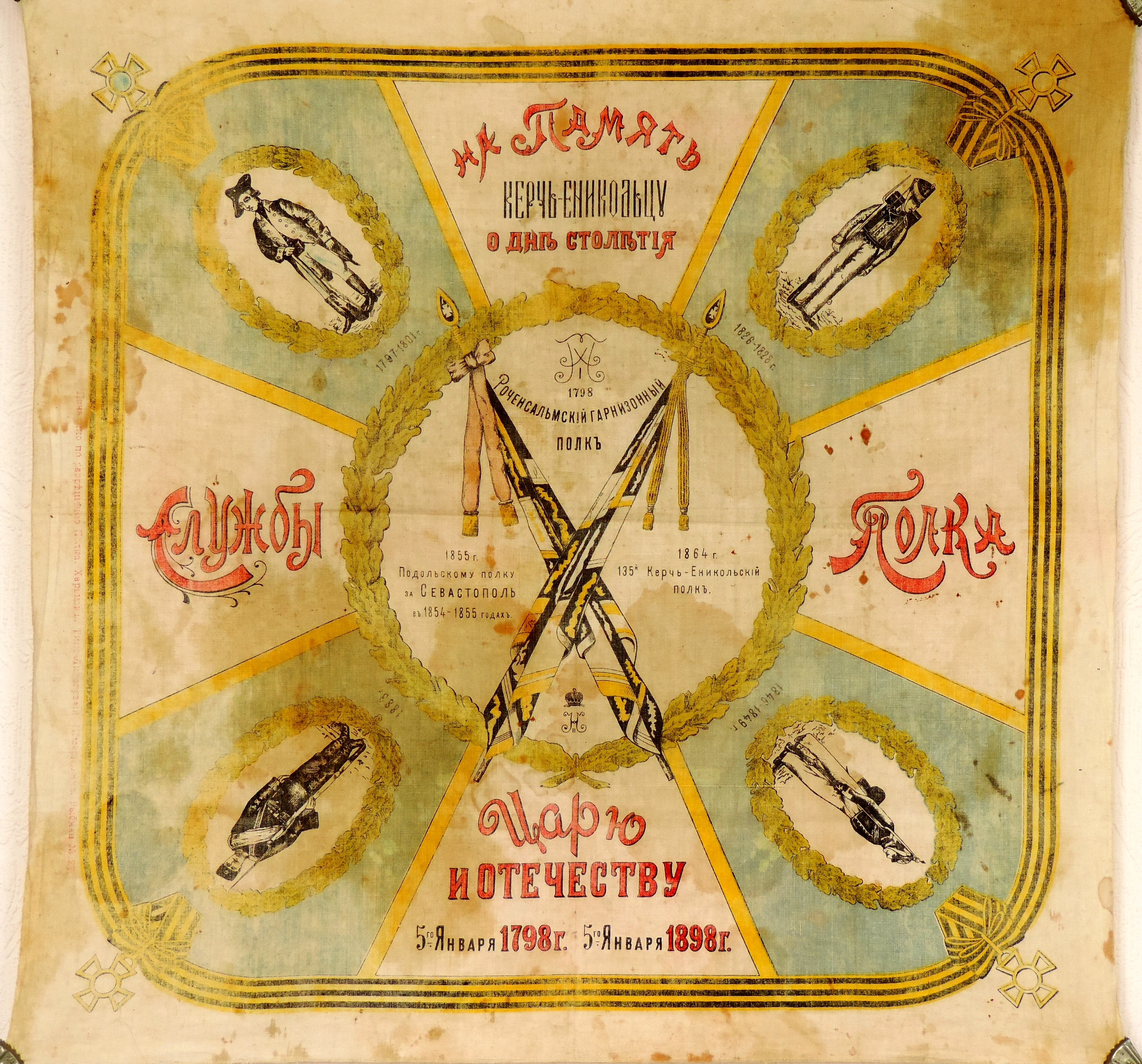 Podolsky 55th Infantry Regiment